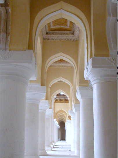 Thirumalai Nayakkar Palace, Madurai.